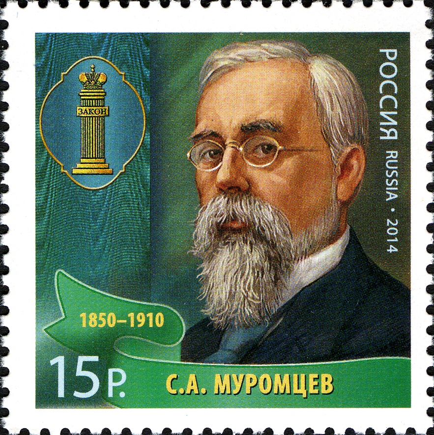 Outstanding Lawyers of Russia - S. Muromtsev